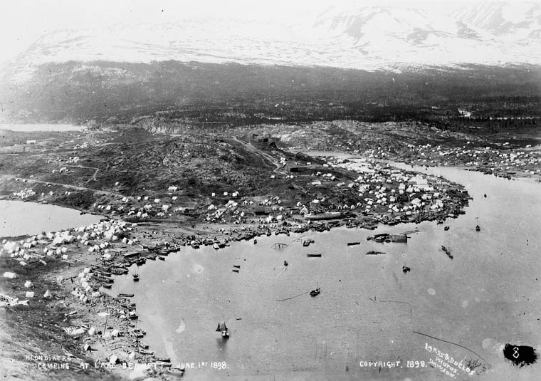 View of Bennett, BRitish Columbia on June 1 1898 during the Klondike gold rush